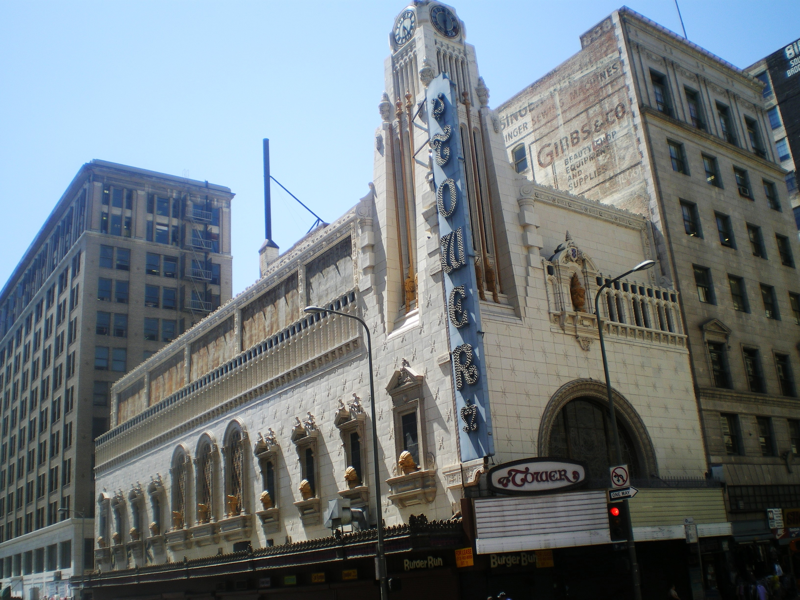 Tower Theater, 802 S. Broadway, Los Angeles, California